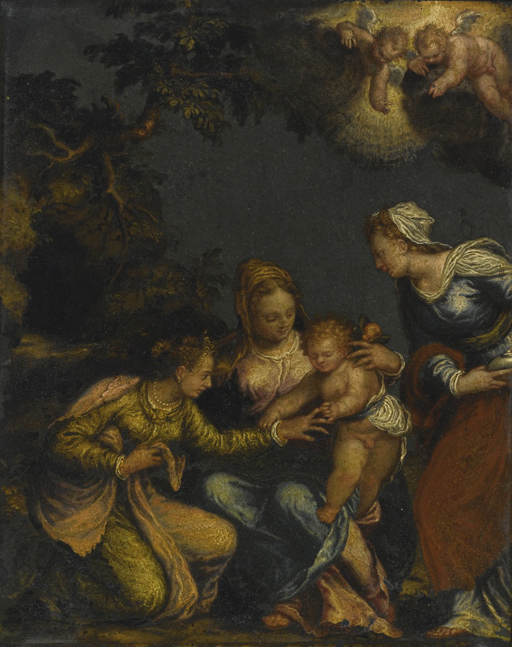 The Mystic Marriage of Saint Catherine